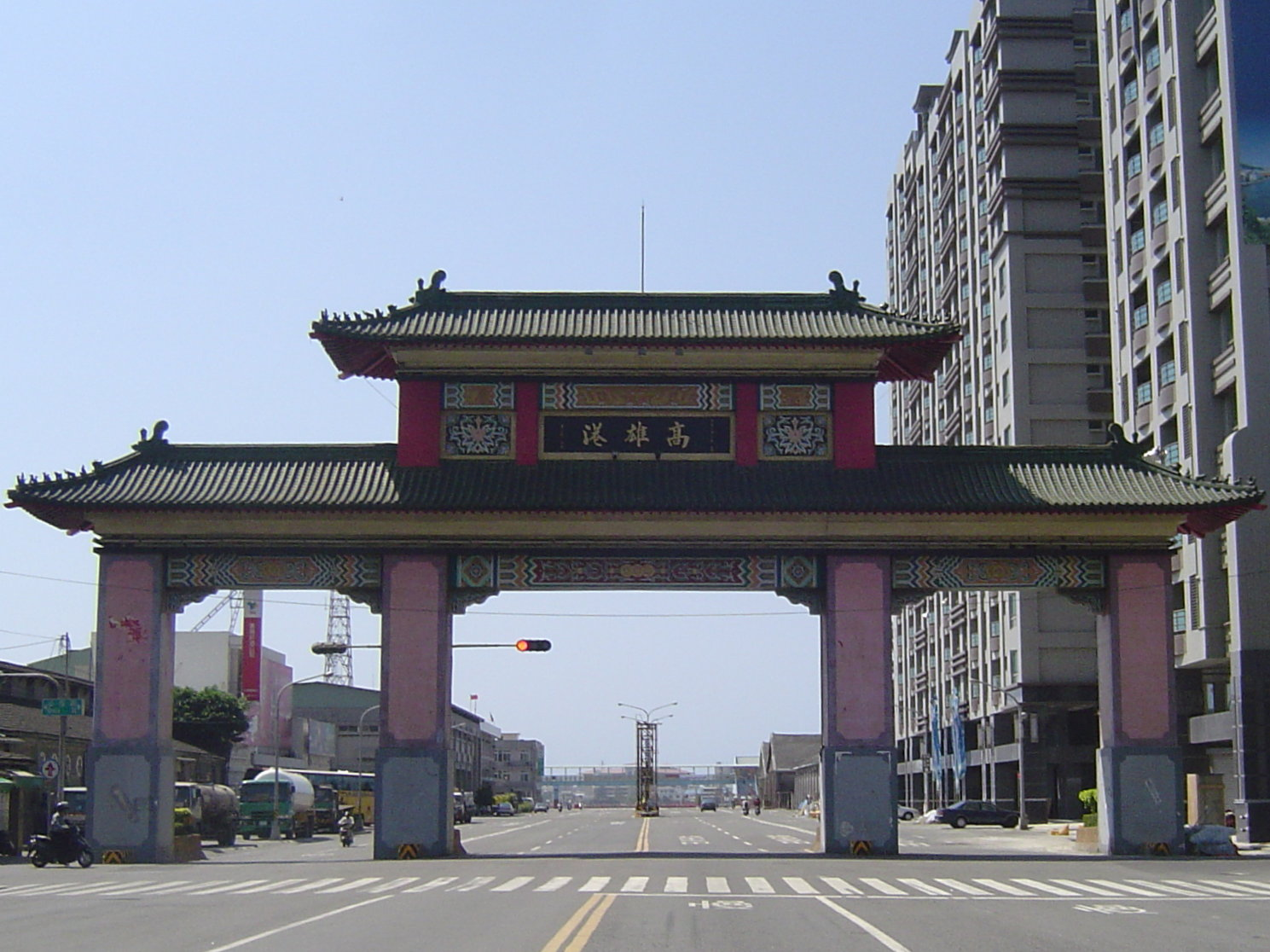 Showing the paifang of Kaohsiung Port.The photo taken from Chi-Shian 3rd Road in Kaohsiung City.